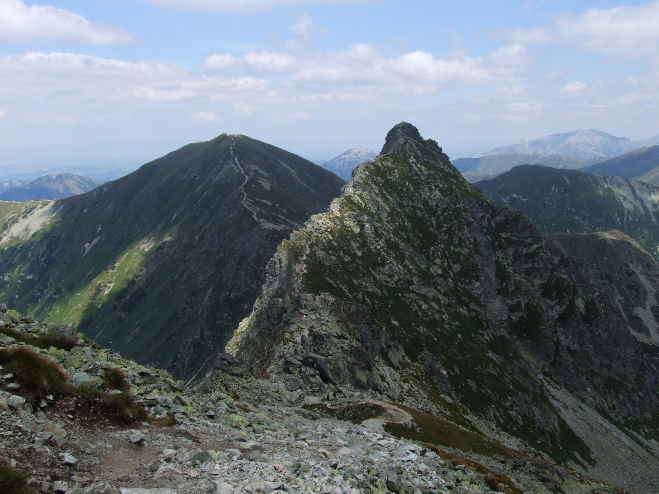 Ostrý Rohač (Ostry Rohacz) - West Tatra Mountains